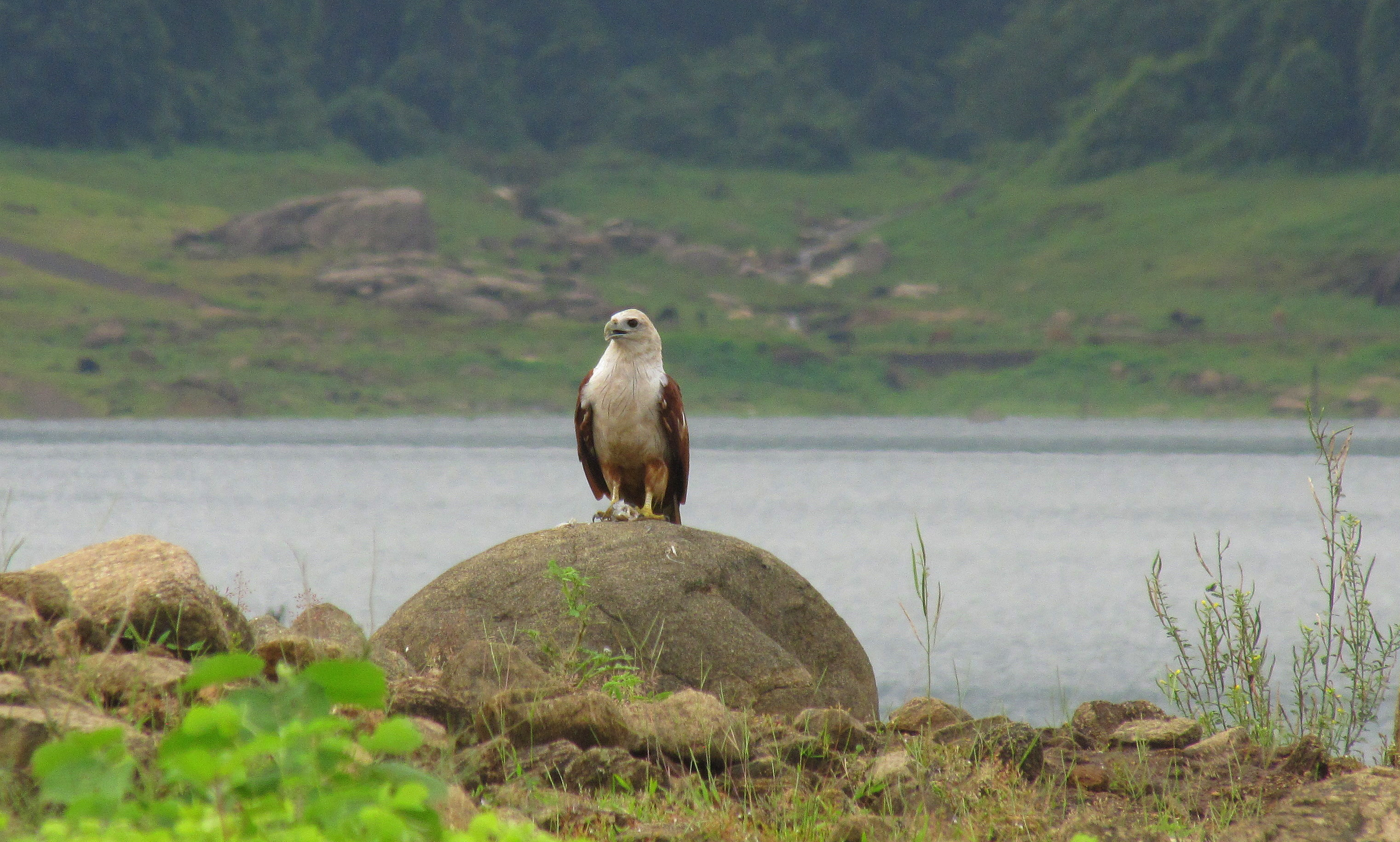 Brahminy Kite (Haliastur indus). From Chimmini Wildlife Sanctuary, Thrissur